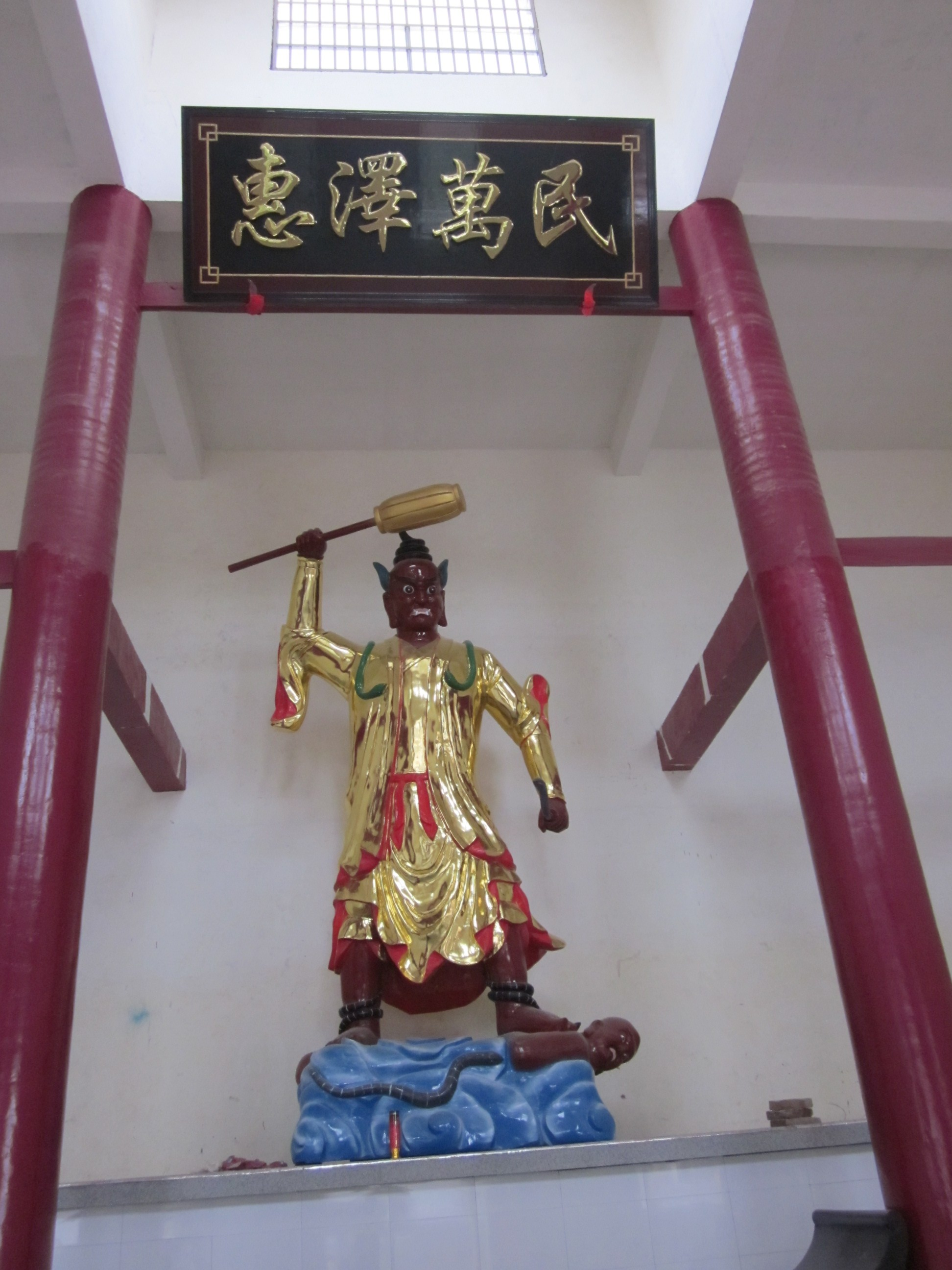 The Buddha She'e, is a Chinese Buddhism god.中文（中国大陆）: 蛇恶尊神又名蛇恶诸天、巡山使者，是中国湖南省长沙市和江苏省常熟市的汉传佛教神祇信仰。